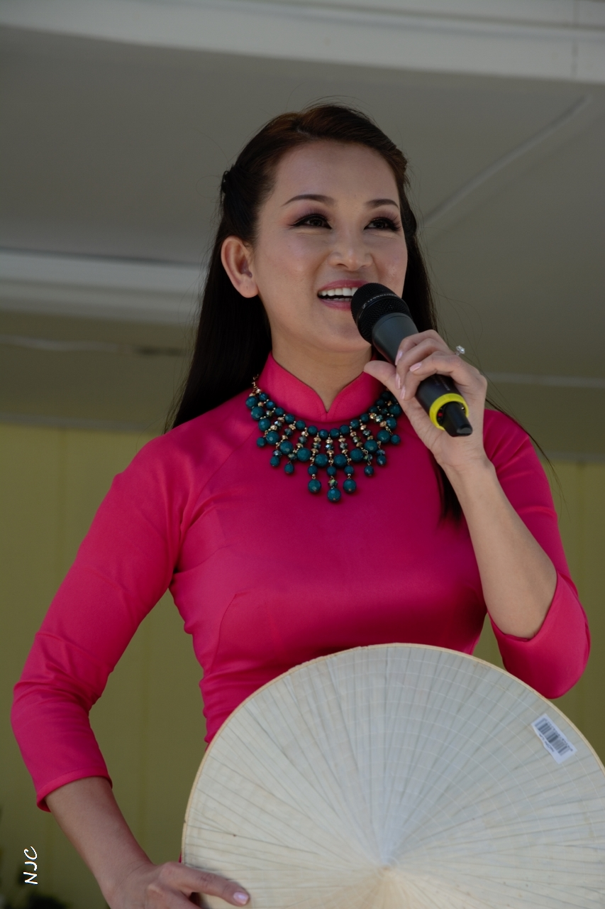 Vietnamese Singer "Huong Thuy" performing at Thien Vien Minh Dang Quang in Charlotte, North Carolina. May 4th, 2014.